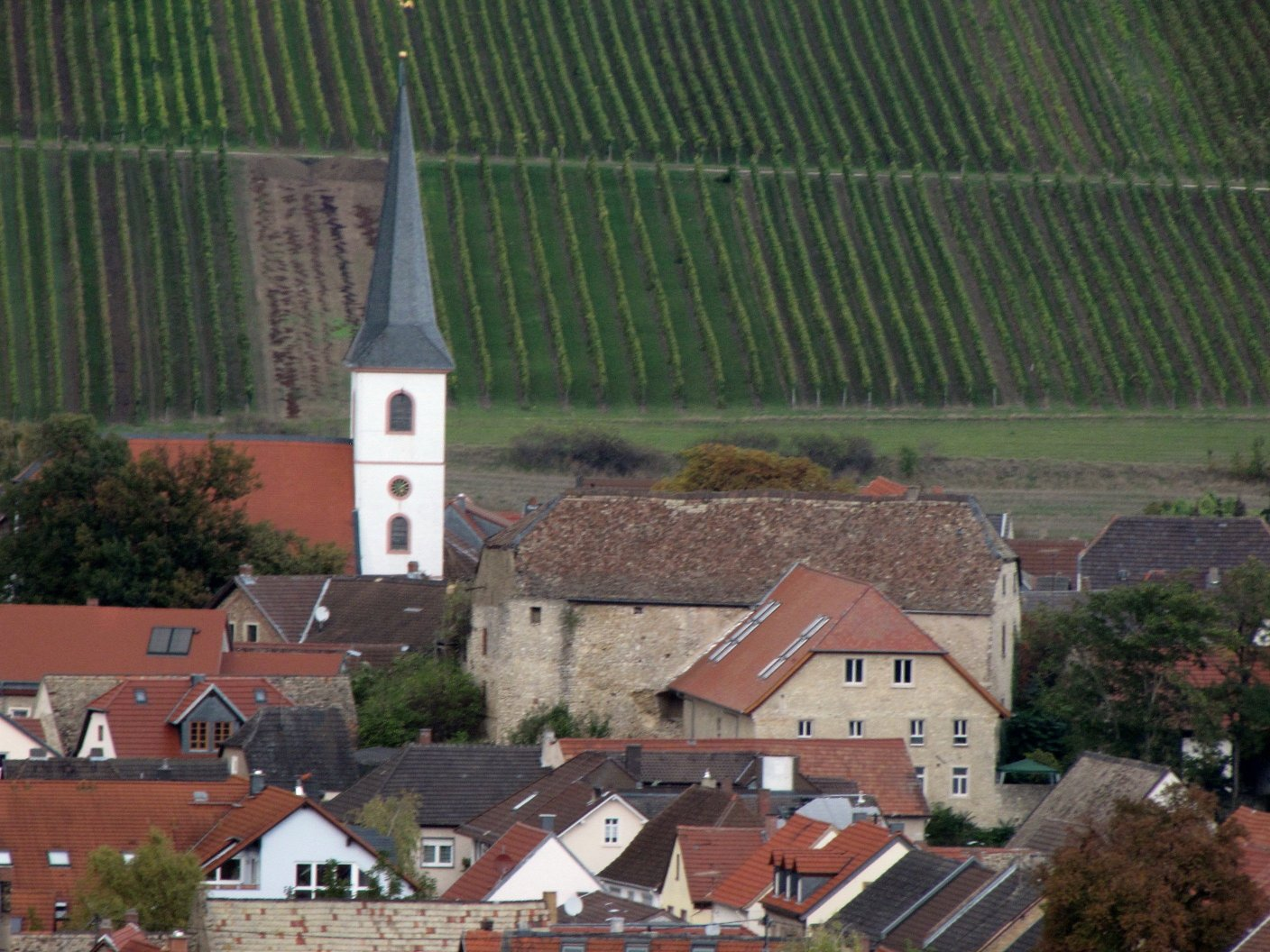 Burg Stadeck Stadecken-Elsheim